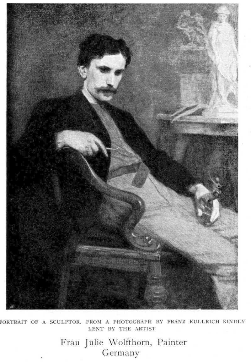 1905 print after page of Women painters of the world, from the time of Caterina Vigri, 1413-1463, to Rosa Bonheur and the present day, by Walter Shaw Sparrow, The Art and Life Library, Hodder & Stoughton, 27 Paternoster Row, London, page 304